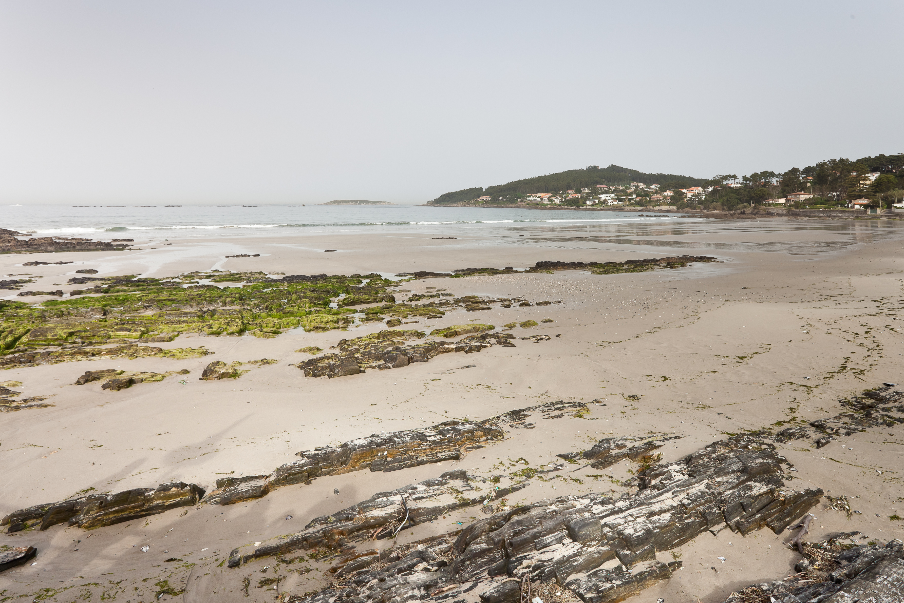 Beach of A Madorra, Panxón, Nigrán, Galicia (Spain)